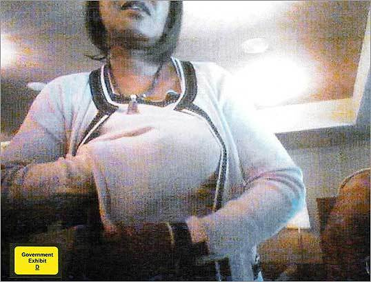 Photo of Massachusetts State Representative Dianne Wilkerson alledgedly taking a bribe. Presented as evidence in indictment. part of exhibits filed with district court on 10/27/2008